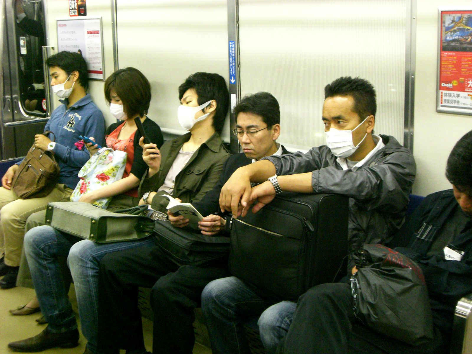 Influenza-Shock at Osaka（may,2009）